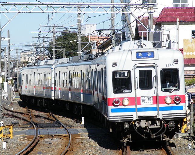 A Keisei 3300 series EMU at Shibamata Station in Tokyo, Japan